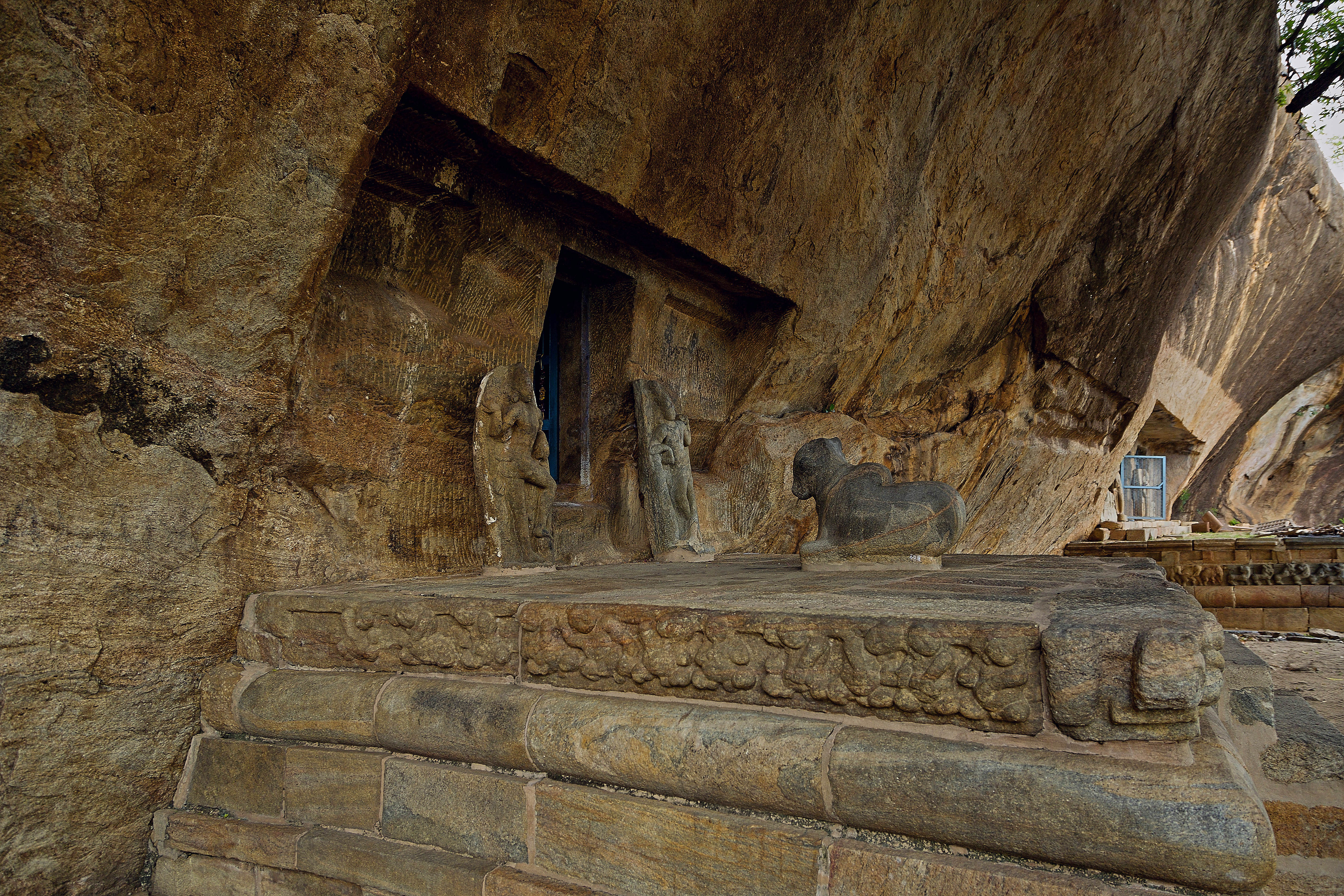 Side view of Rock cut shiva cave called as Pazhiyileesvaram at narthamalai Pudukkottai District